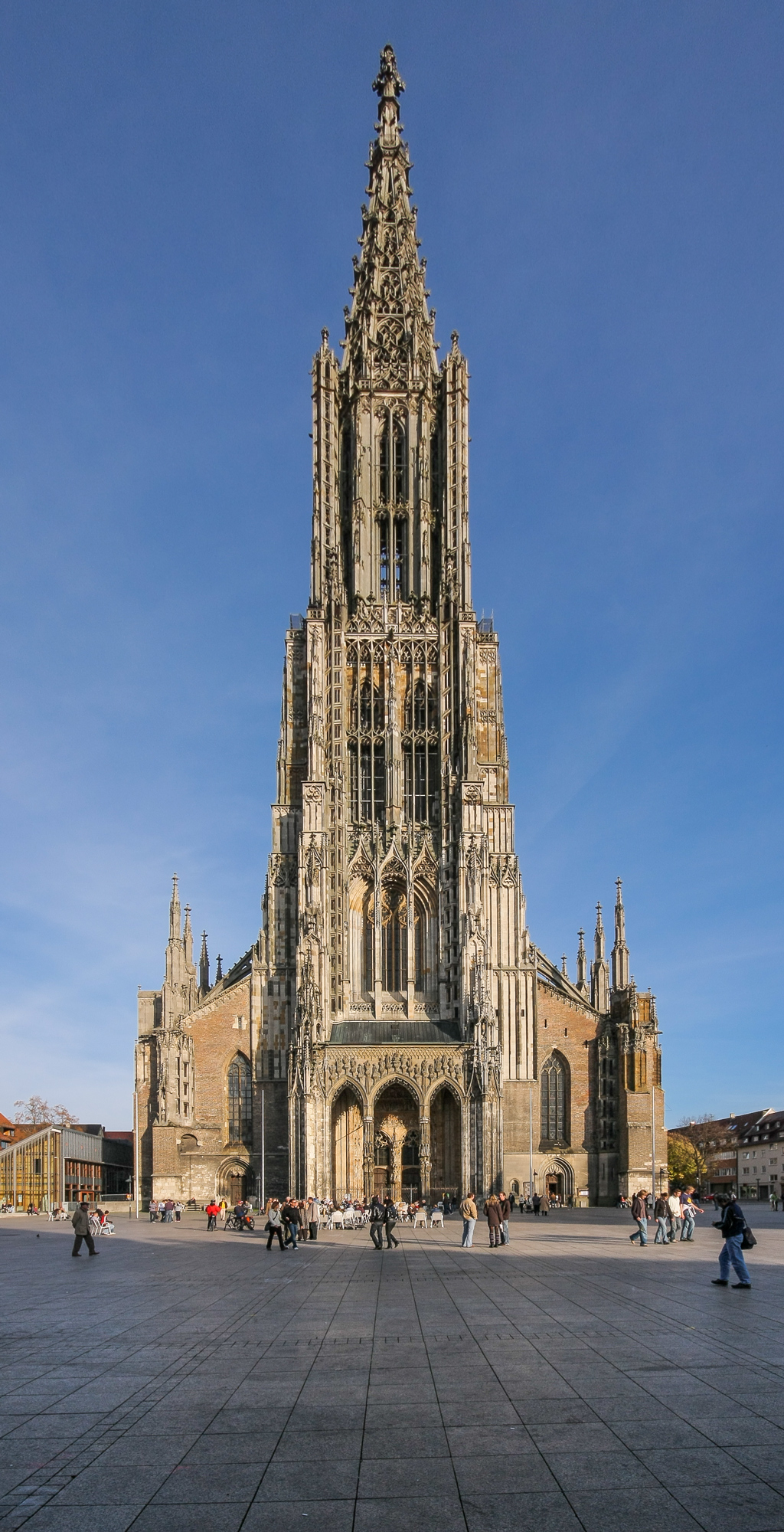 Ulm Minster